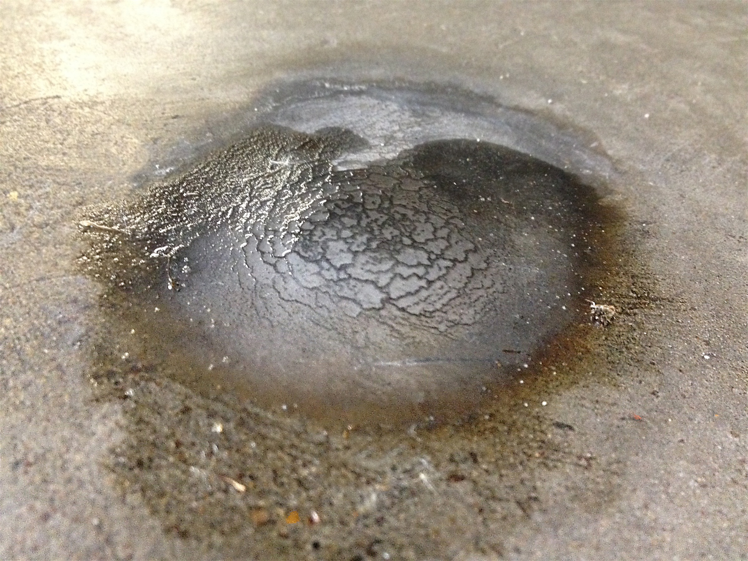 Micro-Gours on a small rounded calthemite stalagmite - a secondary deposit derived from concrete. This stalagmite is growing beneath a concrete building in the underground carpark